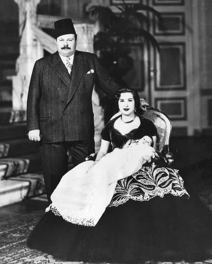 King Farouk I of Egypt with his wife Queen Narriman and their son prince Fouad.